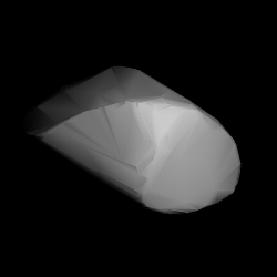 3D convex shape model of 1170 Siva, computed using light curve inversion techniques. J. Hanuš, J. Ďurech, M. Brož, B. D. Warner (June 2011). "A study of asteroid pole-latitude distribution based on an extended set of shape models derived by the lightcurve inversion method". Astronomy and Astrophysics 530: A134. ISSN 0004-6361. arXiv